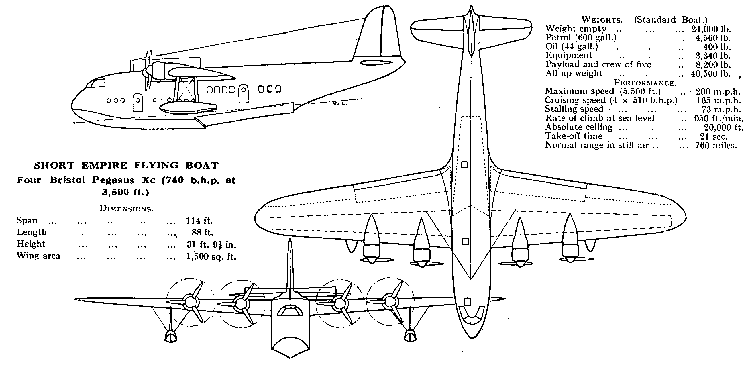 Short Empire 3-view drawing NACA-AC-204